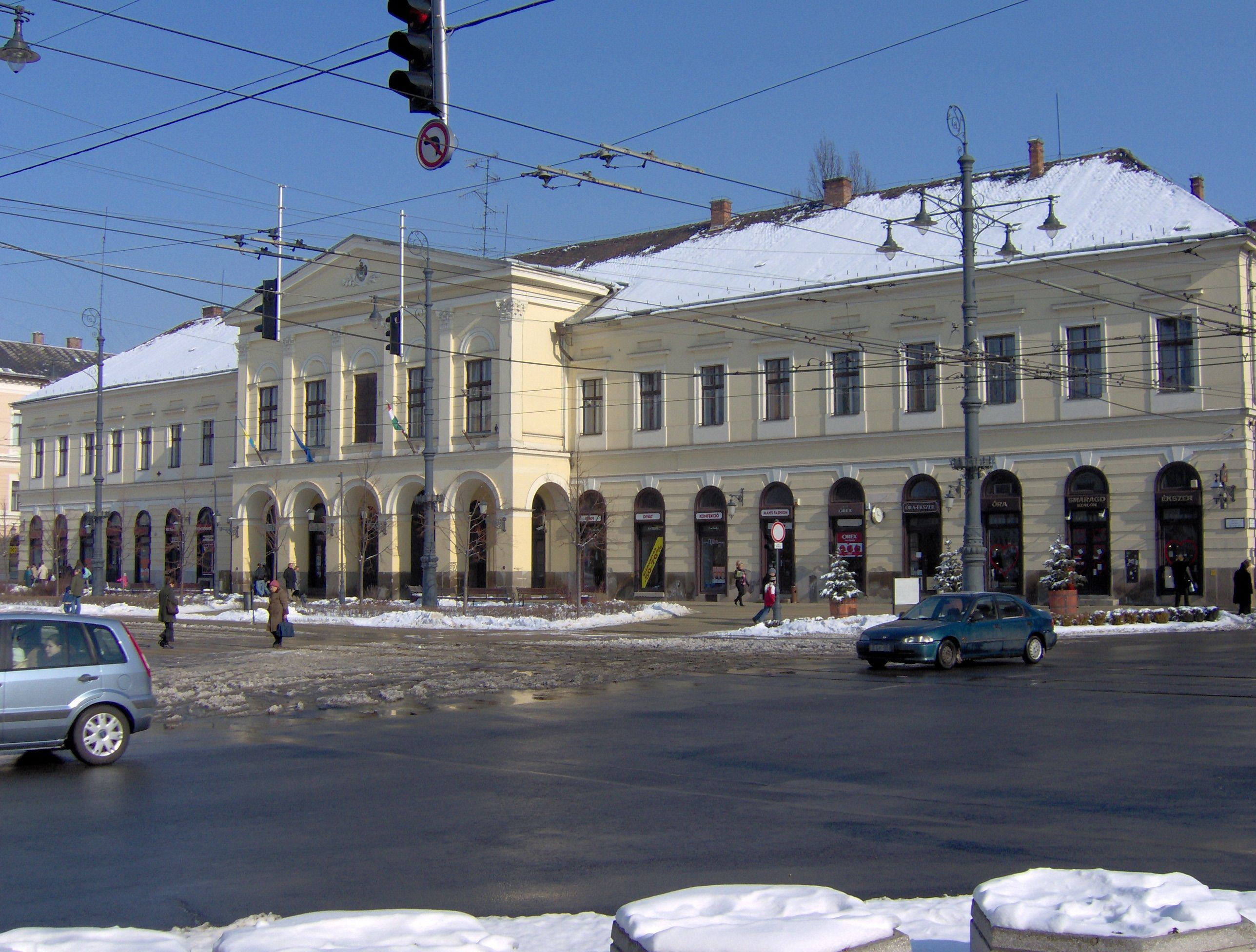 Old Town Hall of Debrecen